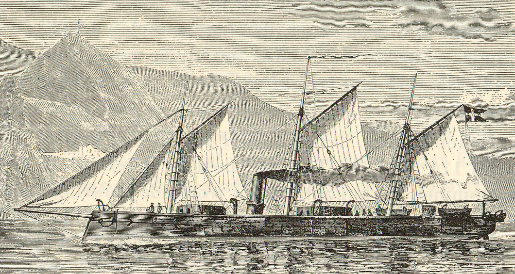 Danish Ironclad Rolf Krake in 1863. This was the first armoured ship with turrets, serving in Europe.